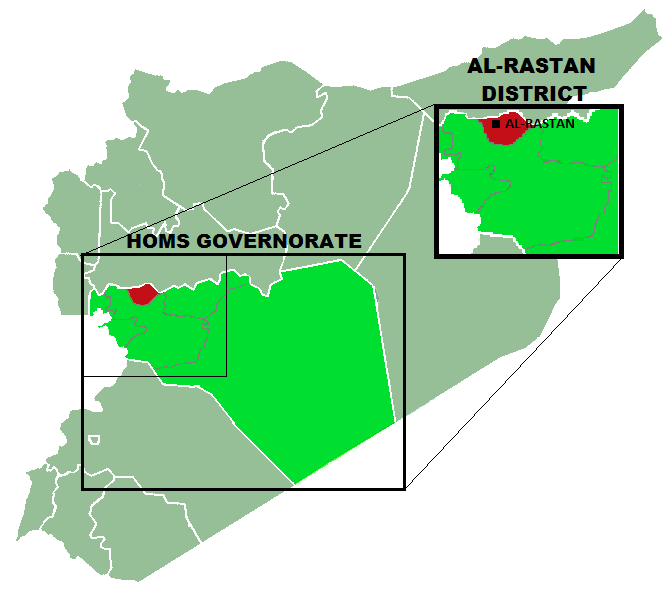 Map of the Al-Rastan District with its capital Al-Rastan in Homs Governorate, Syria.